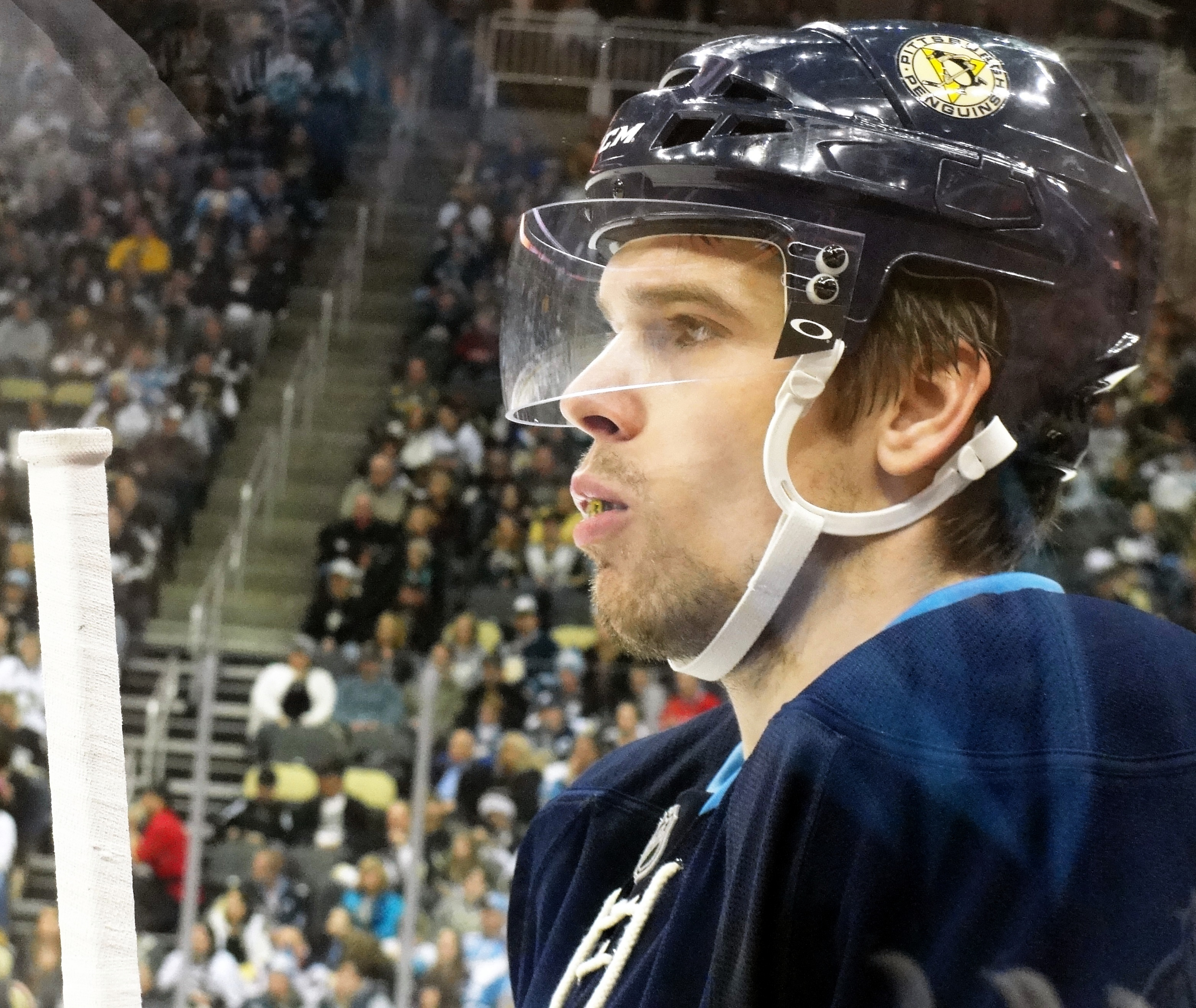 Zbynek Michalek of the Pittsburgh Penguins looks on during a January 7, 2012 game against the New Jersey Devils at Consol Energy Center in Pittsburgh, PA.